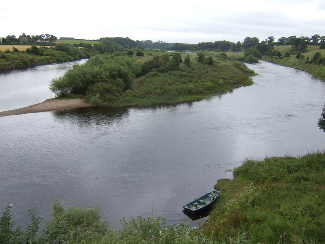 Canny Island and the Tweed Viewed south from the Scottish bank at Ladykirk, the river island is English and the right-hand (western) arm of the Tweed is in Scotland.